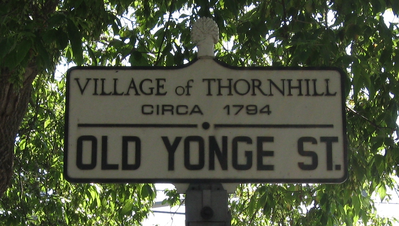 Street sign at the corner of Old Yonge and Centre St. This is just to the west of the present course of Yonge St, and the center of the original settlement.